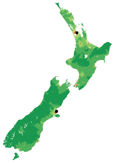 This is a map of Mix frequencies, and population density.